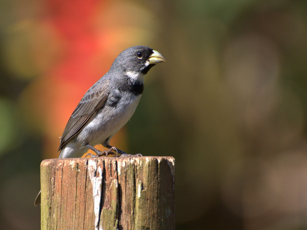 Sporophila_caerulescens